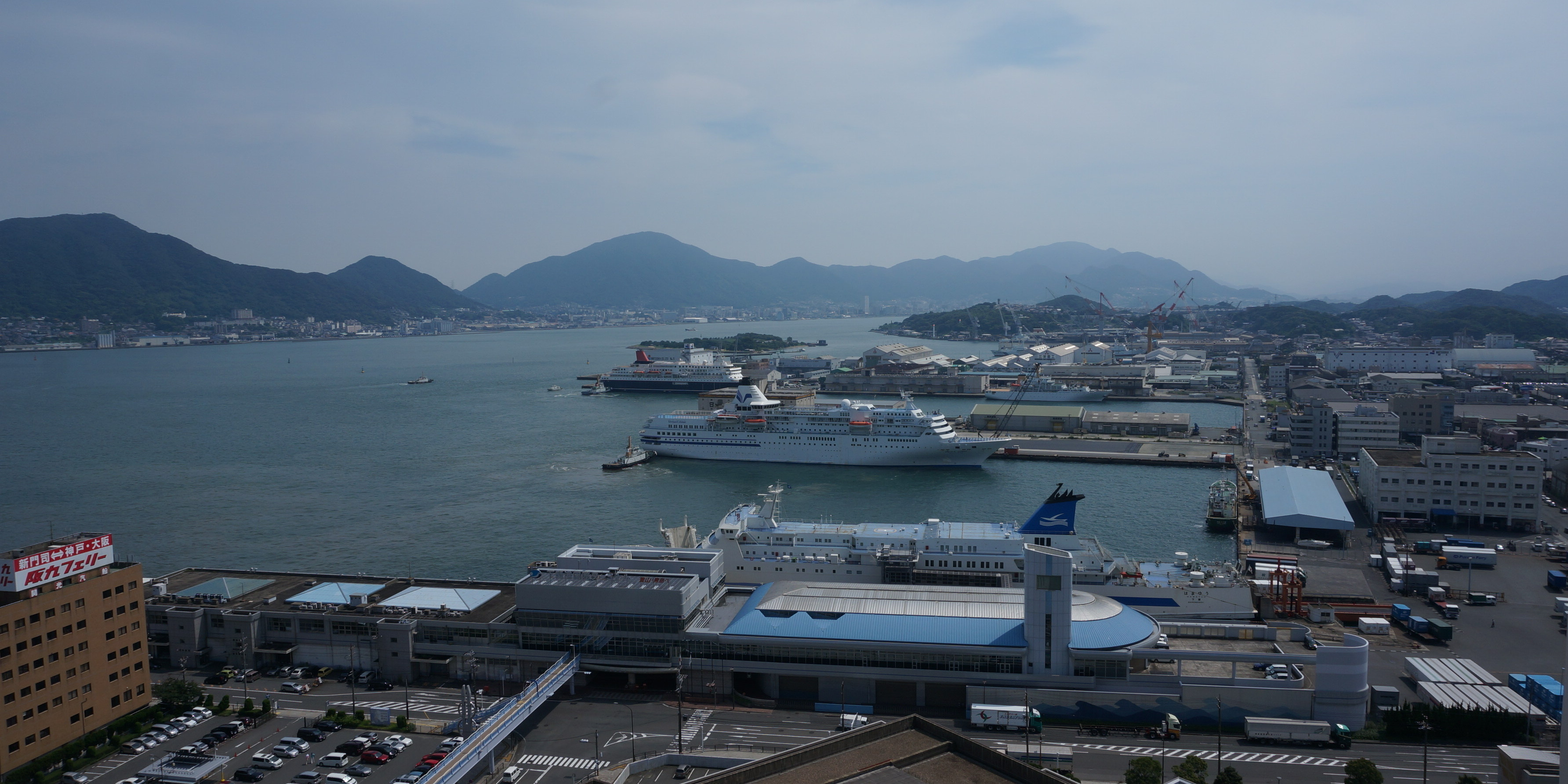 Port of Shimonoseki and Kanmon Straits.